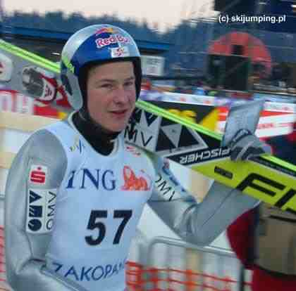 FIS Ski Jumping World Cup in Zakopane, 2003 Andreas Goldberger